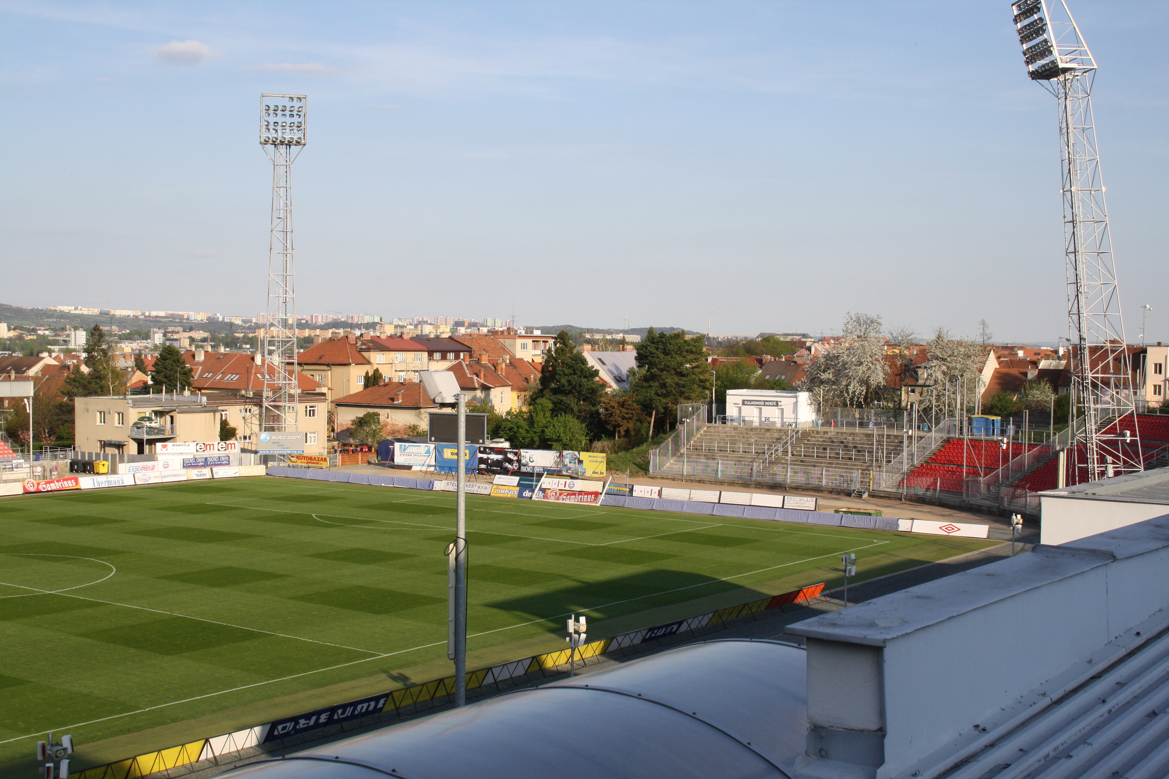 Srbská stadium overviev in Brno.